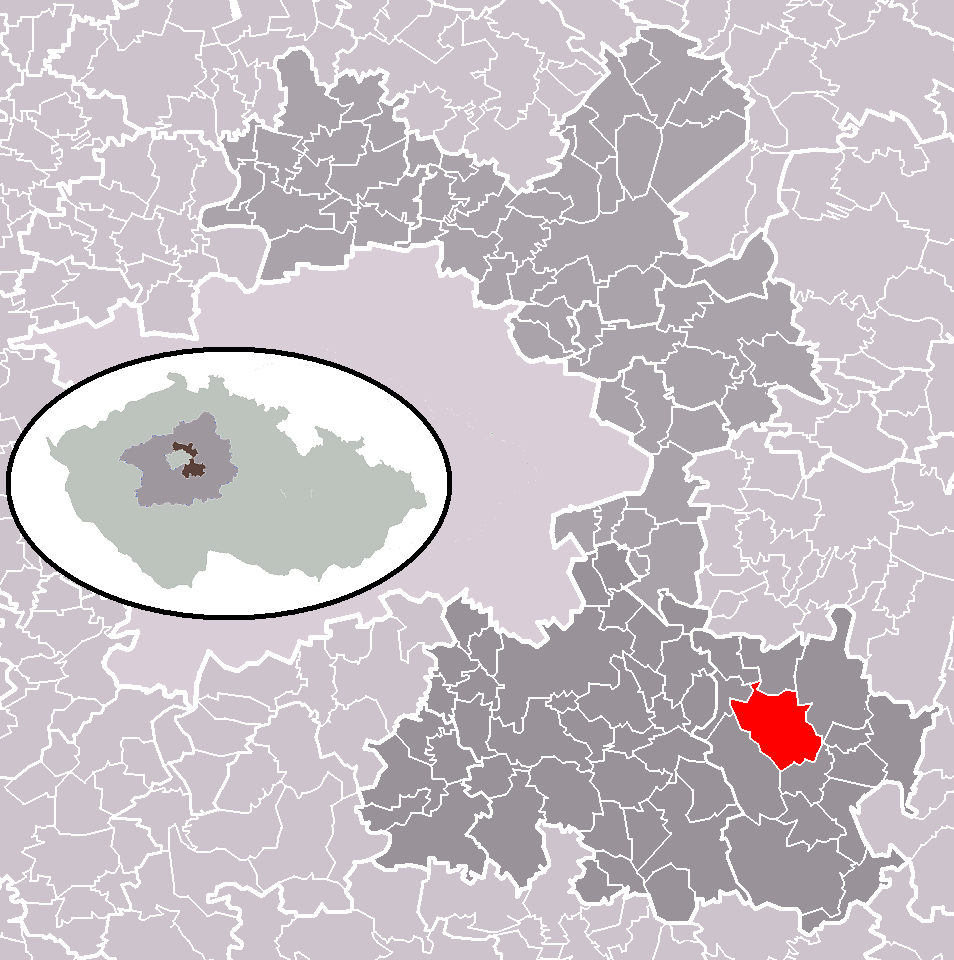 Location of Jevany municipality within Prague-East District and administrative area of Říčany as a Municipality with Extended Competence.